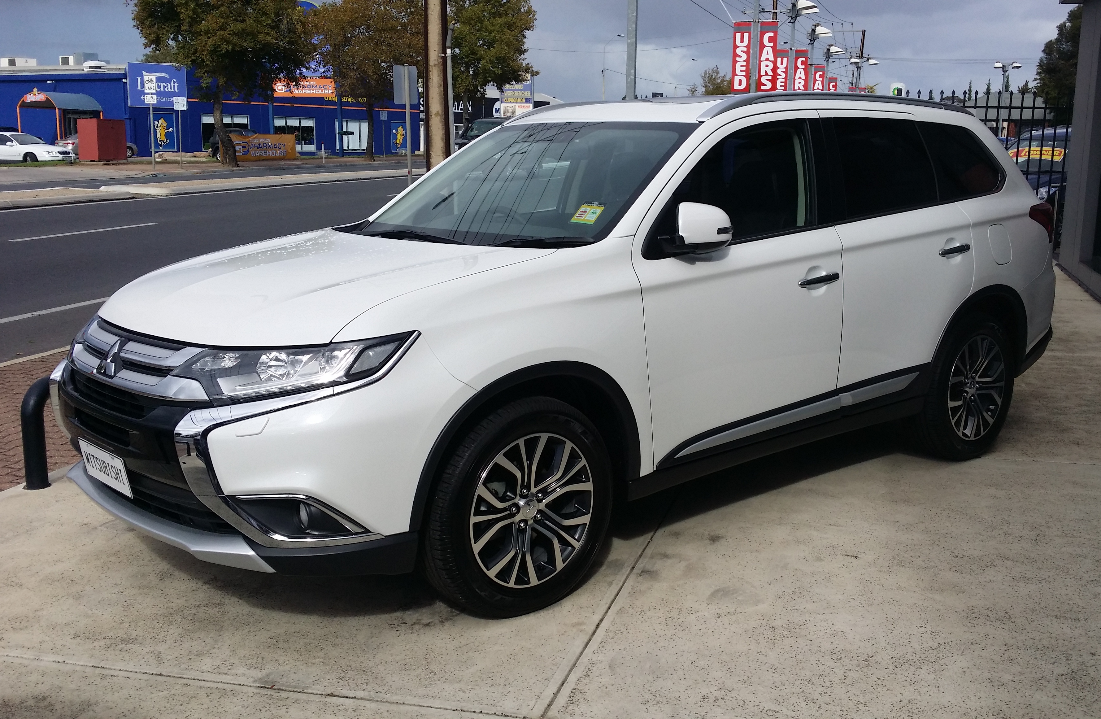 The updated 2015 Outlander has arrived in Australia. Looking kind of Lexus-ish if you ask me.